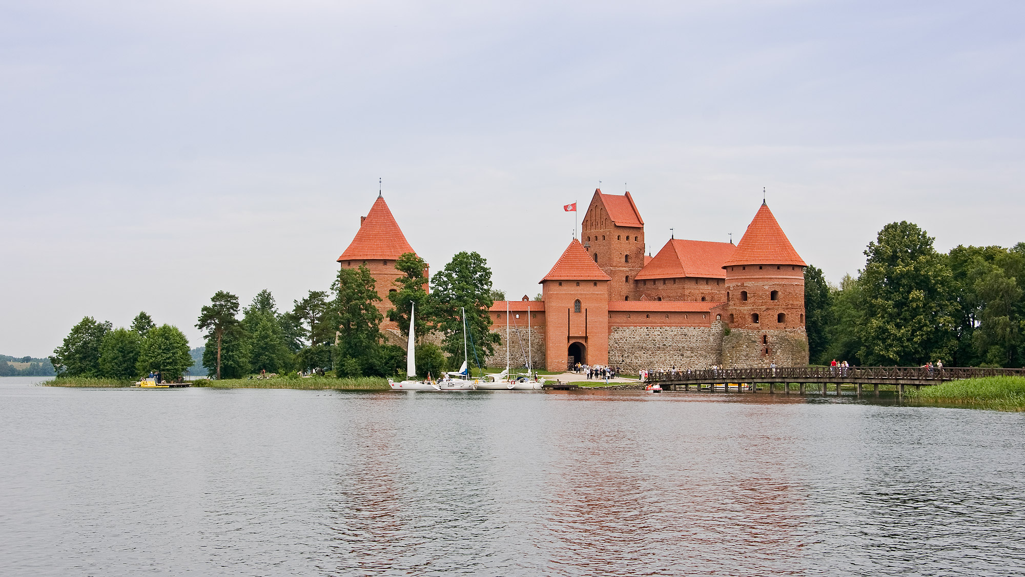 Trakai Island Castle, Lithuania